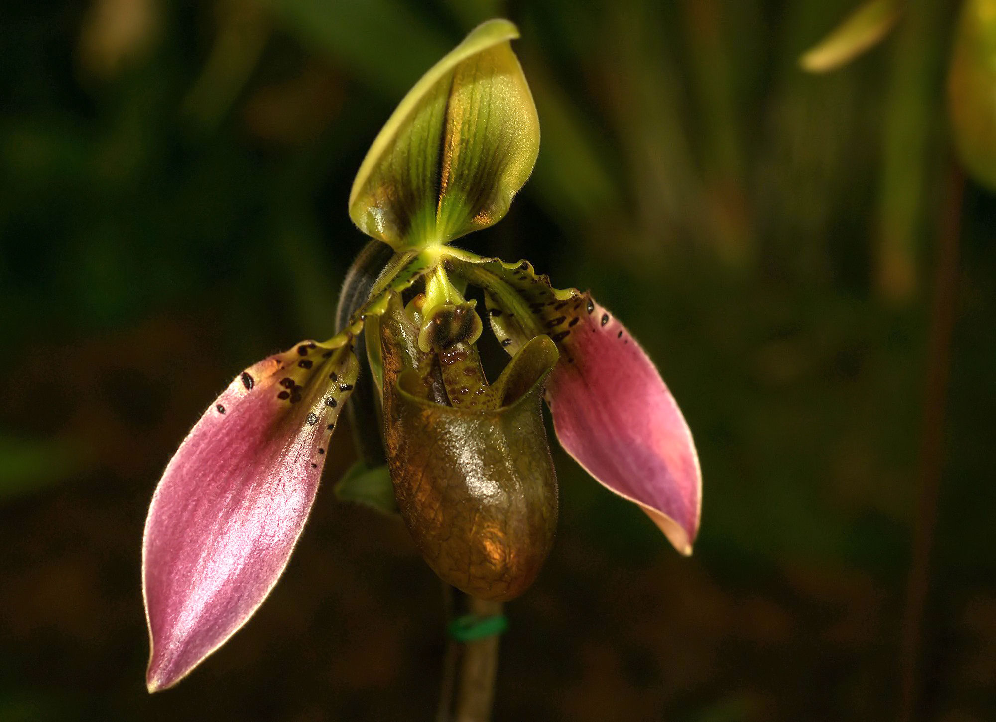 Paphiopedilum bullenianum - flower